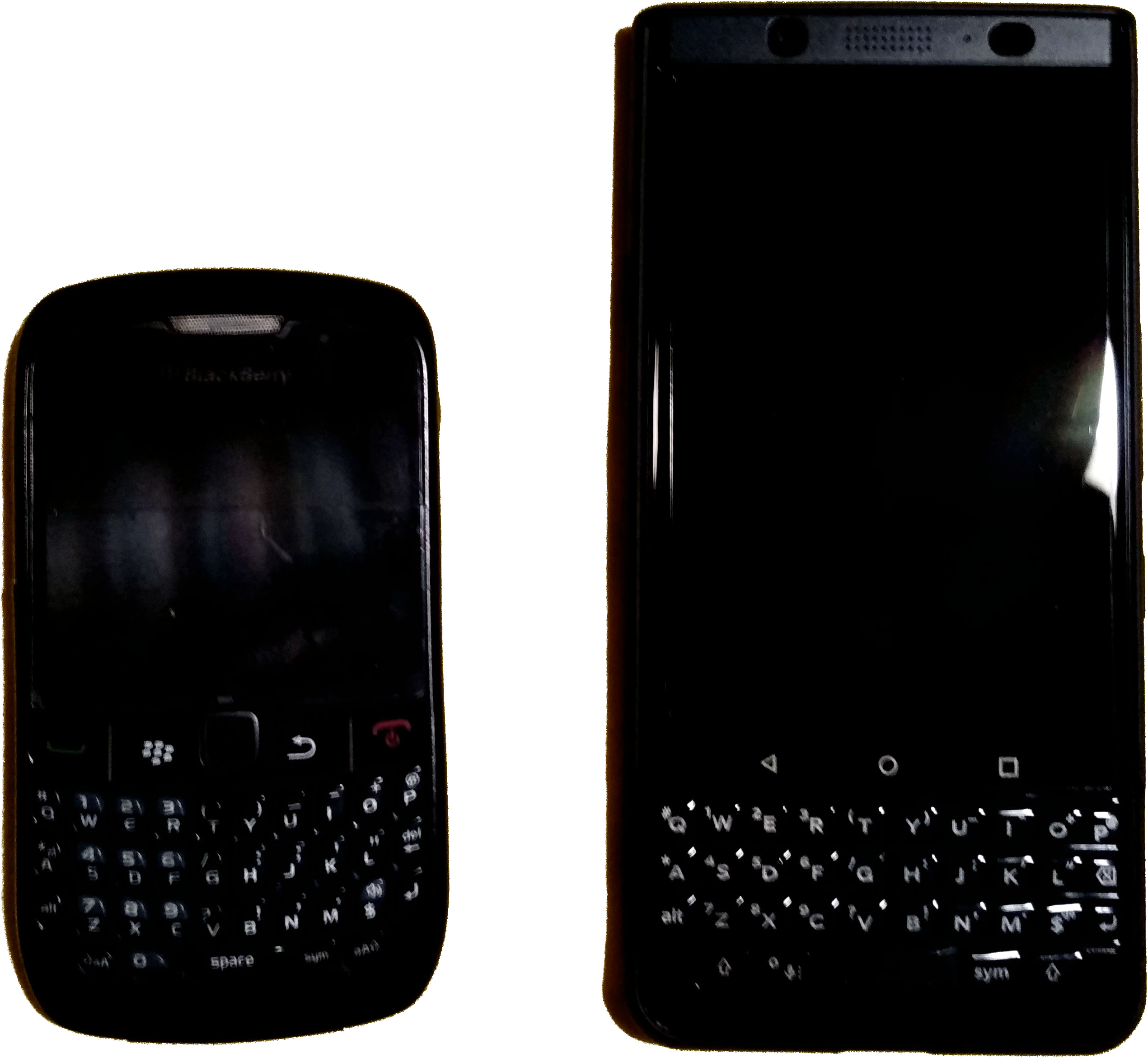 The BlackBerry Curve 8520 (left, introduced 2009) compared with the BlackBerry KeyOne BBB100-7 (right, introduced 2017)